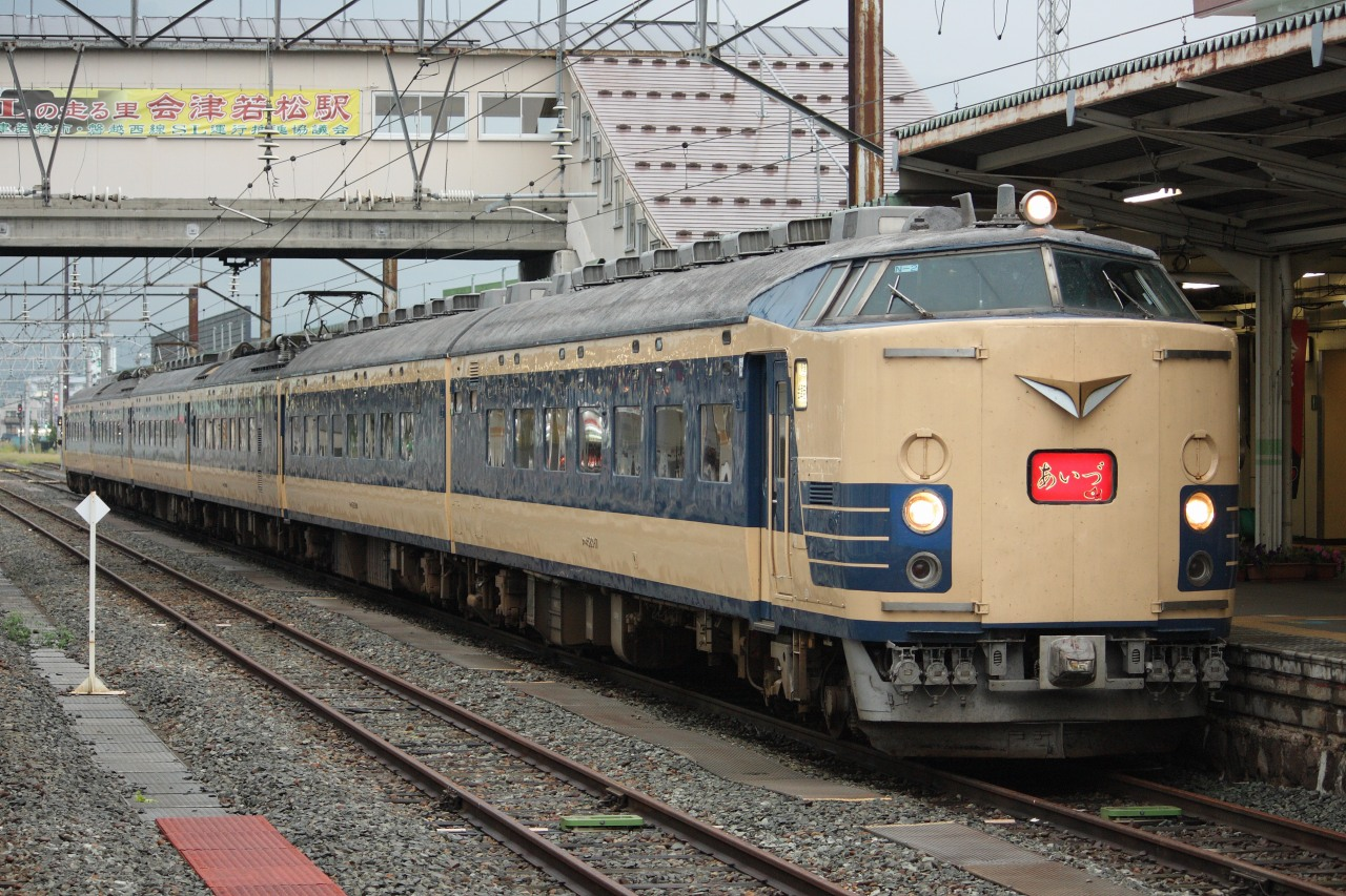 JR East 583 series EMU on an "Aizu Liner" service at Aizu-Wakamatsu Station